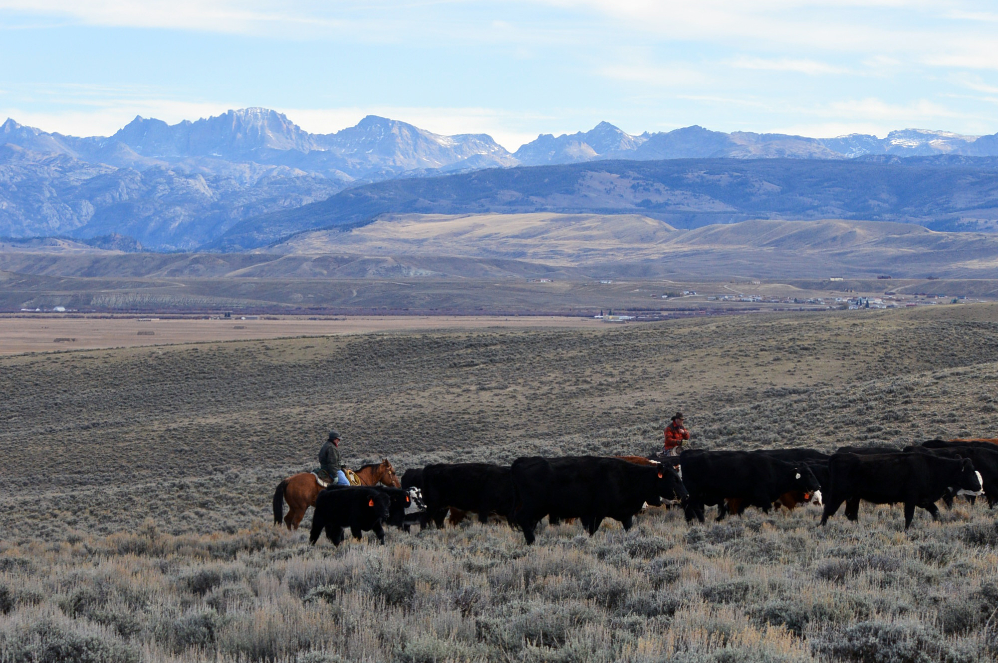 The Upper Green River Valley is a stronghold for greater sage-grouse, which benefit from grouse-friendly ranching practices on many public and private lands. Moving cattle around the landscape leaves grasses and forbes that grouse use for cover and for seasonal food sources. This bunch is being moved from high-elevation summer allotments to the rancher's private land for the winter. Photo Credit: Theo Stein / USFWS